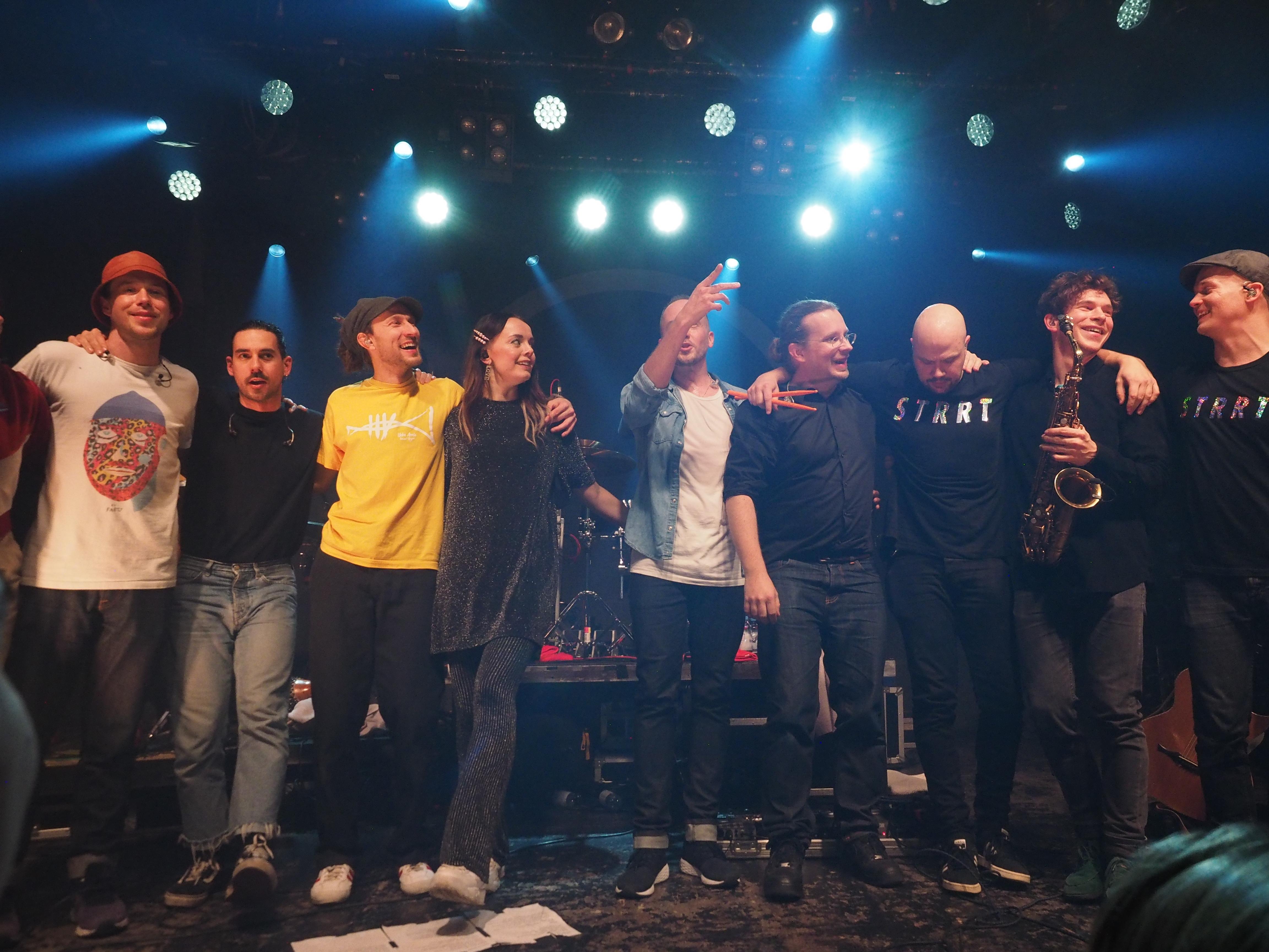 A group pose picture at the end of the Don Johnson Big Band Christmas show 2019. Band members shown include vocalist Tommy Lindgren (centre, in light blue jacket, holding hand up), keyboard player Johannes Laiho (right of Lindgren, in black shirt and glasses) and drummer Kari Saarilahti (right of Laiho, bald, in black STRRT shirt).